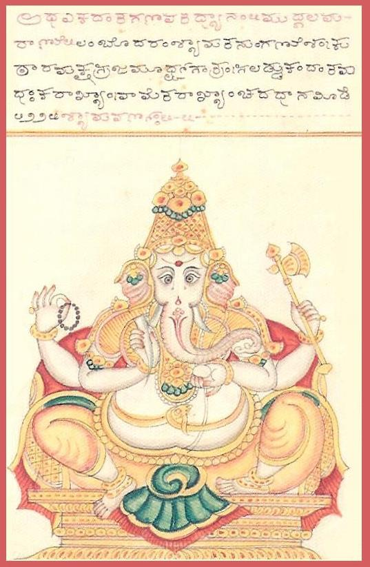 Reproduction from the Śrītattvanidhi ("The Illustrious Treasure of Realities"), an iconographic treatise compiled in the 19th century in Karnataka, India, by order of the then Maharaja of Mysore, Krishnaraja Wodeyar III (b. 1794 - d. 1868).